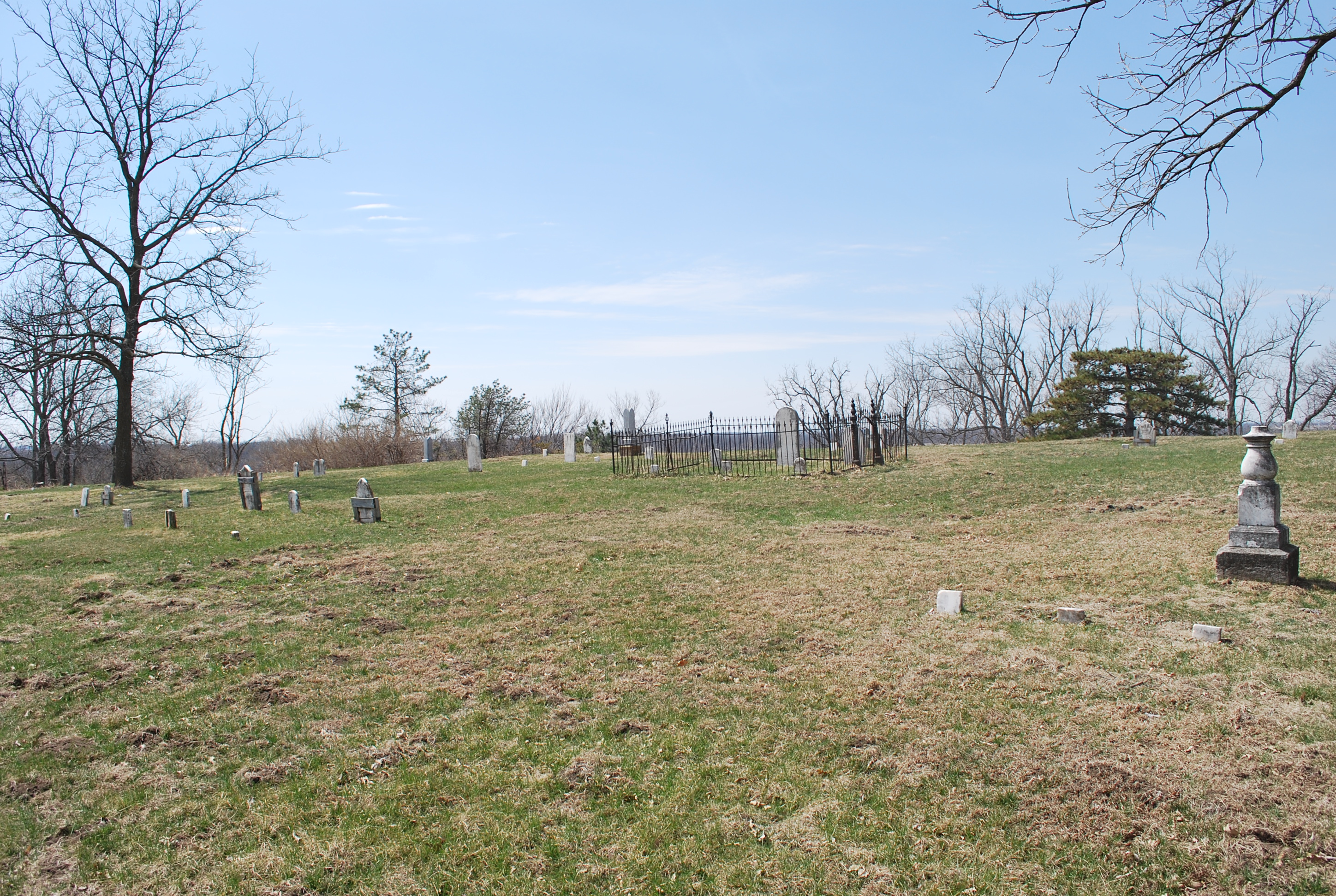 Cemetery for St. Deroin, a ghost town in southeastern Nebraska